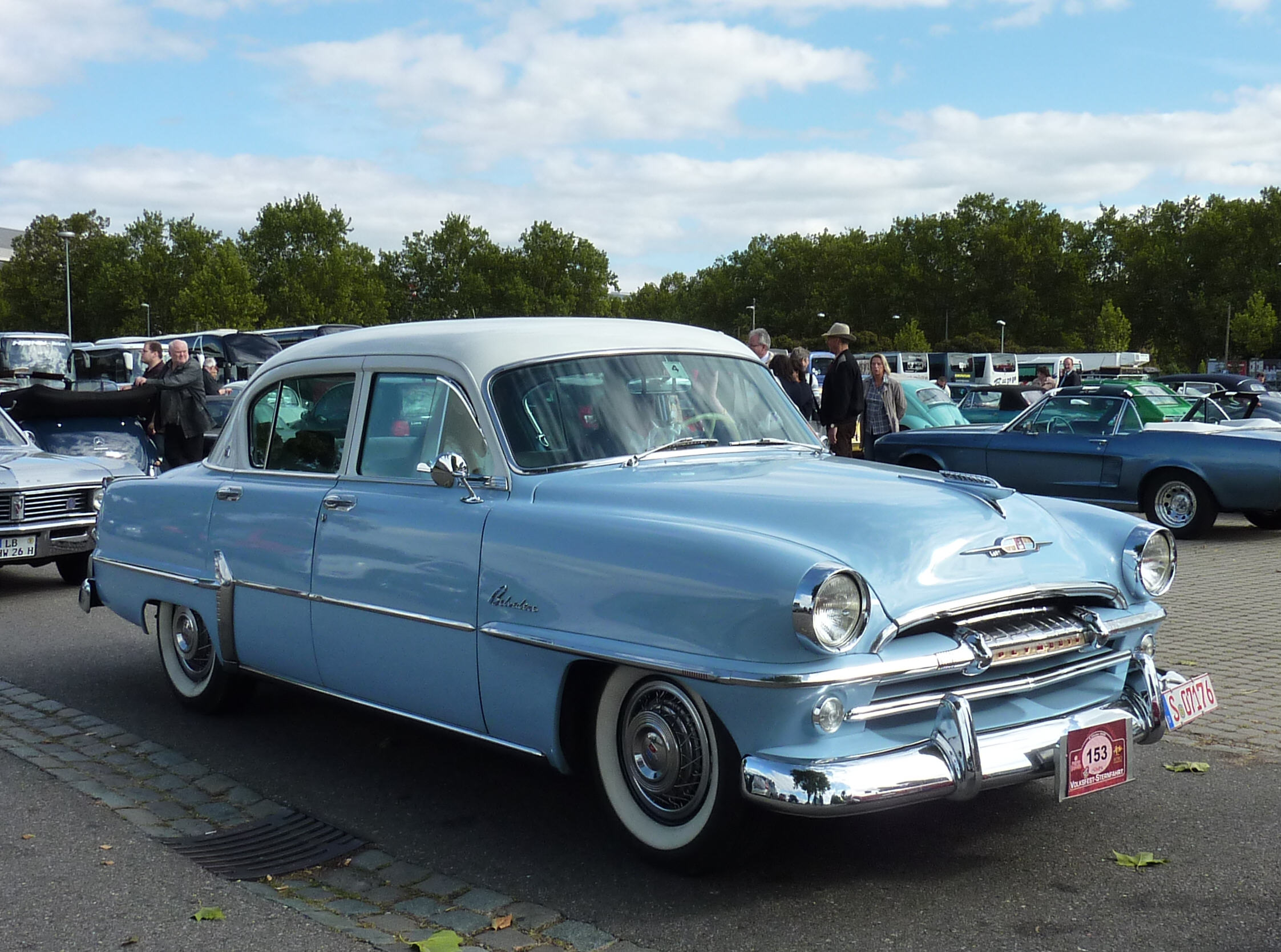 1954 Plymouth Belvedere